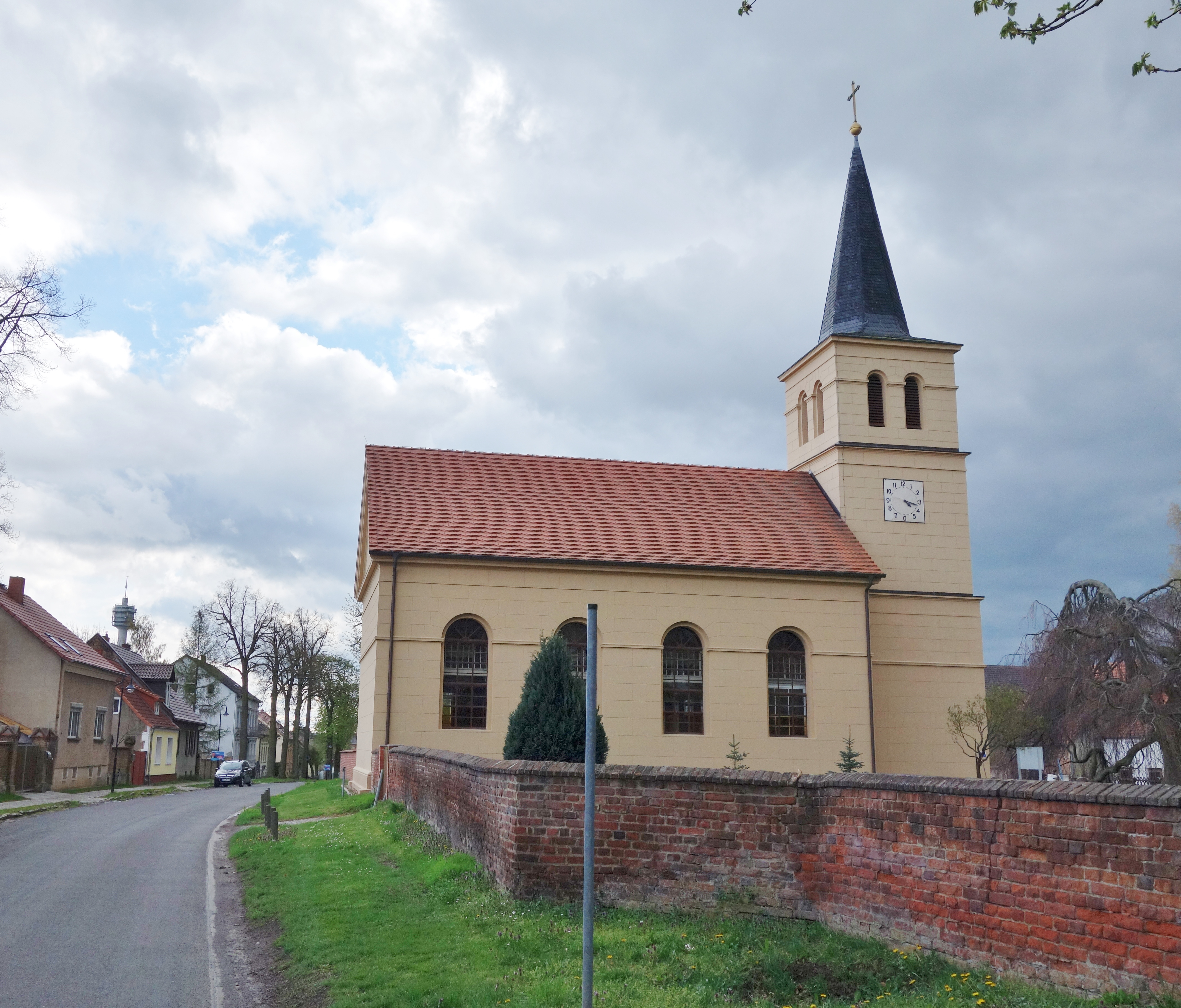 North-north-eastern view of church in Perwenitz, Schönwalde-Glien municipality, Havelland district, Brandenburg state, Germany